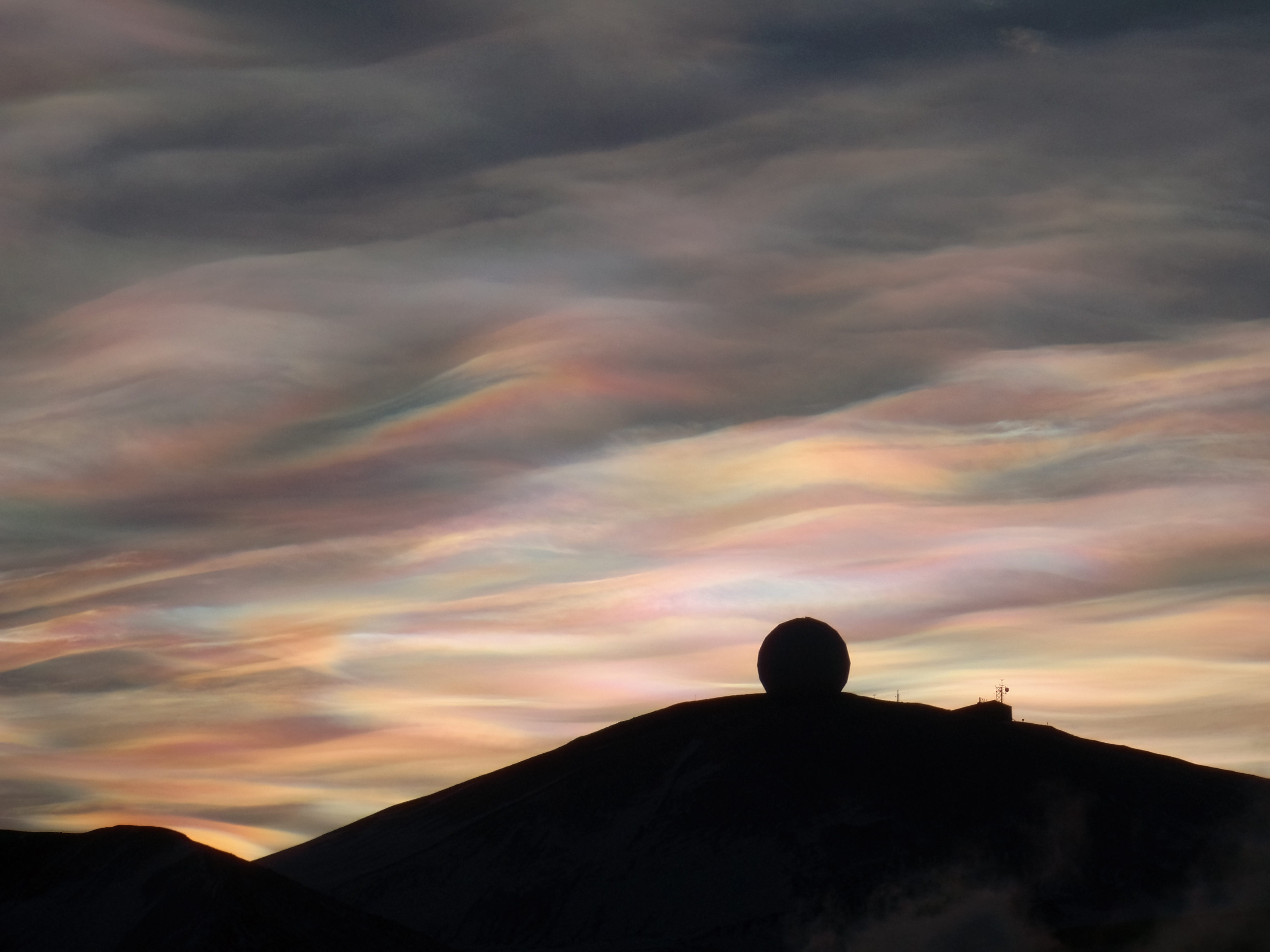 Nacreous clouds over the NASA Radome, McMurdo Station, Antarctica